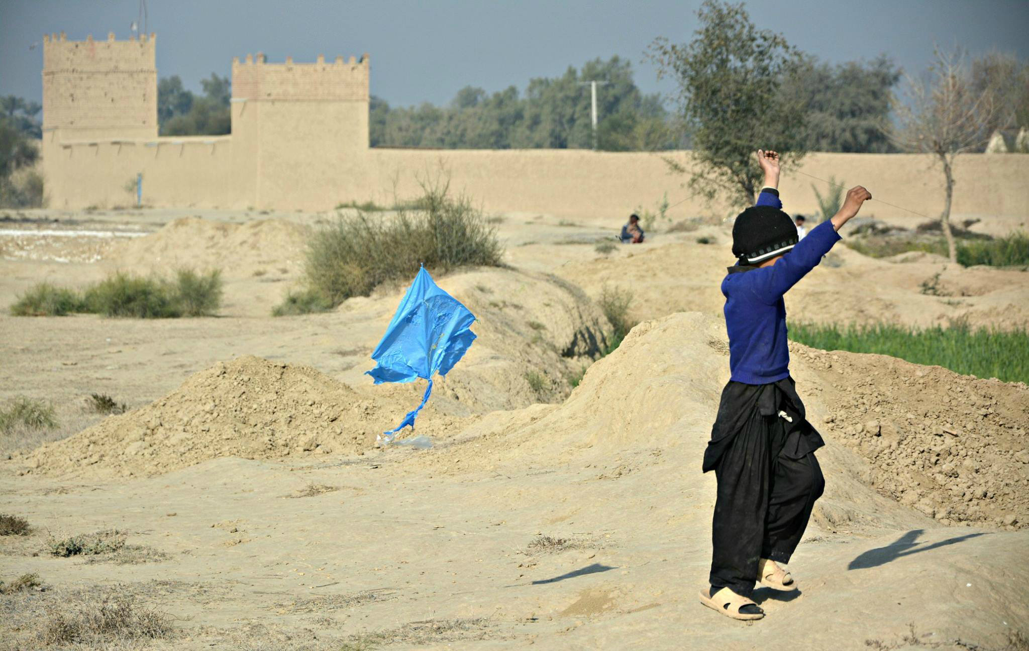 JOY....Happiness...Child hood AND Waziristan. This is a photo of a monument in Pakistan identified as the KPK-3